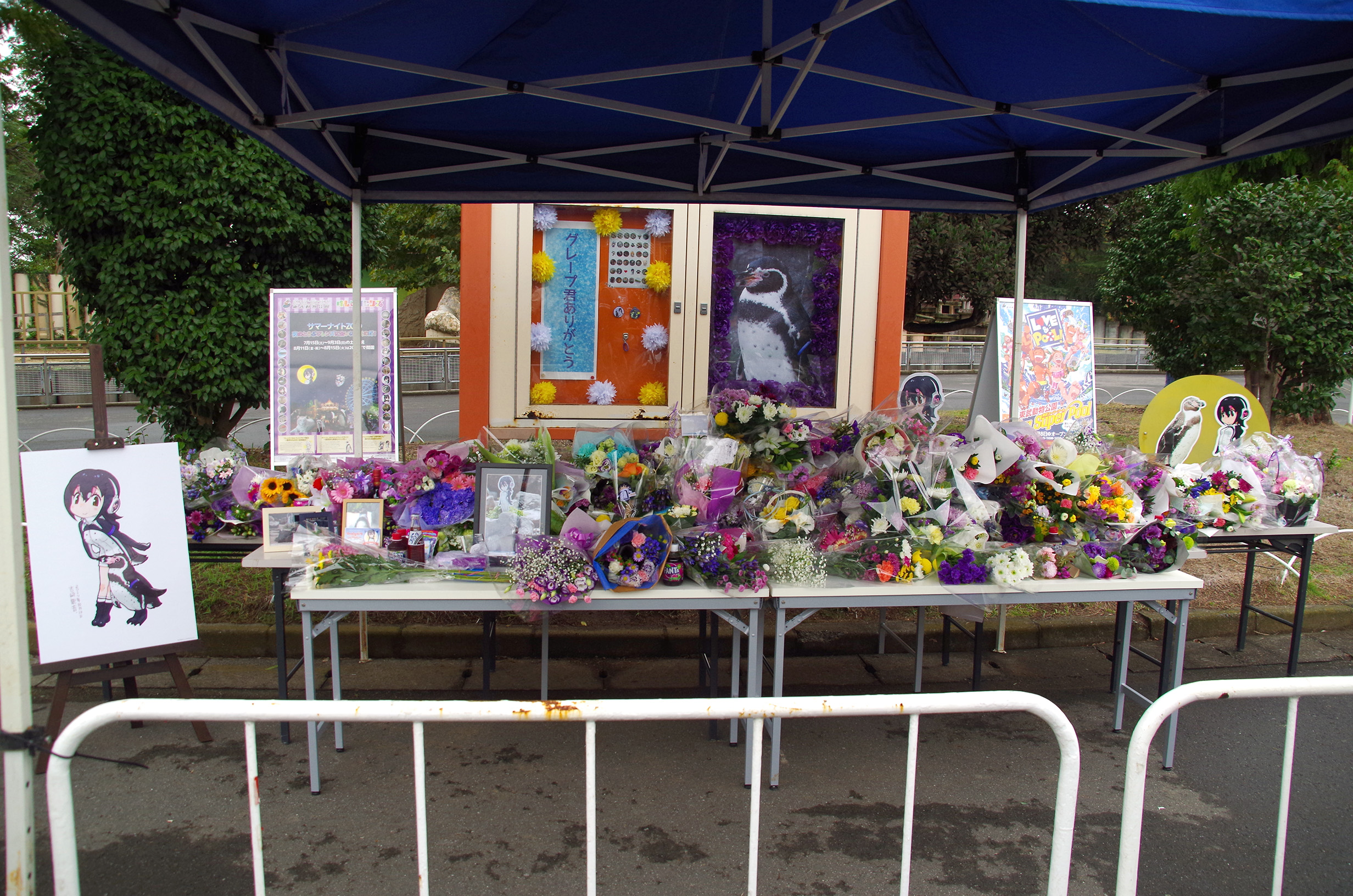 Many fans of "Grape" offering flowers and related goods. 14 Oct 2017, Tobu zoo (Saitama pref, Japan).